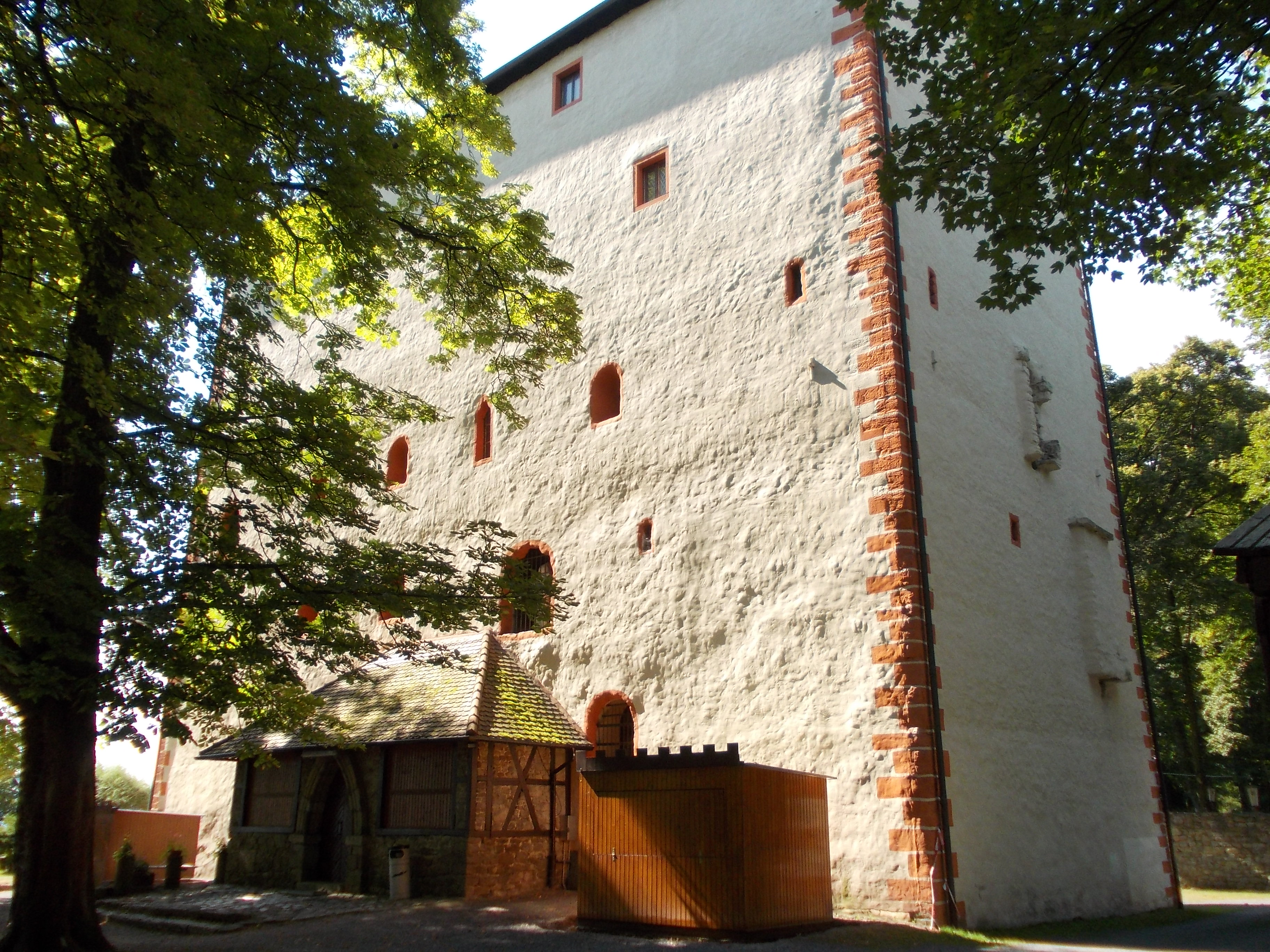 Kemenate, the only remaining building of Orlamünde Castle (district: Saale-Holzlandkreis, Thuringia)